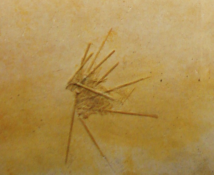 Fossil of Hemicidaris intermedia